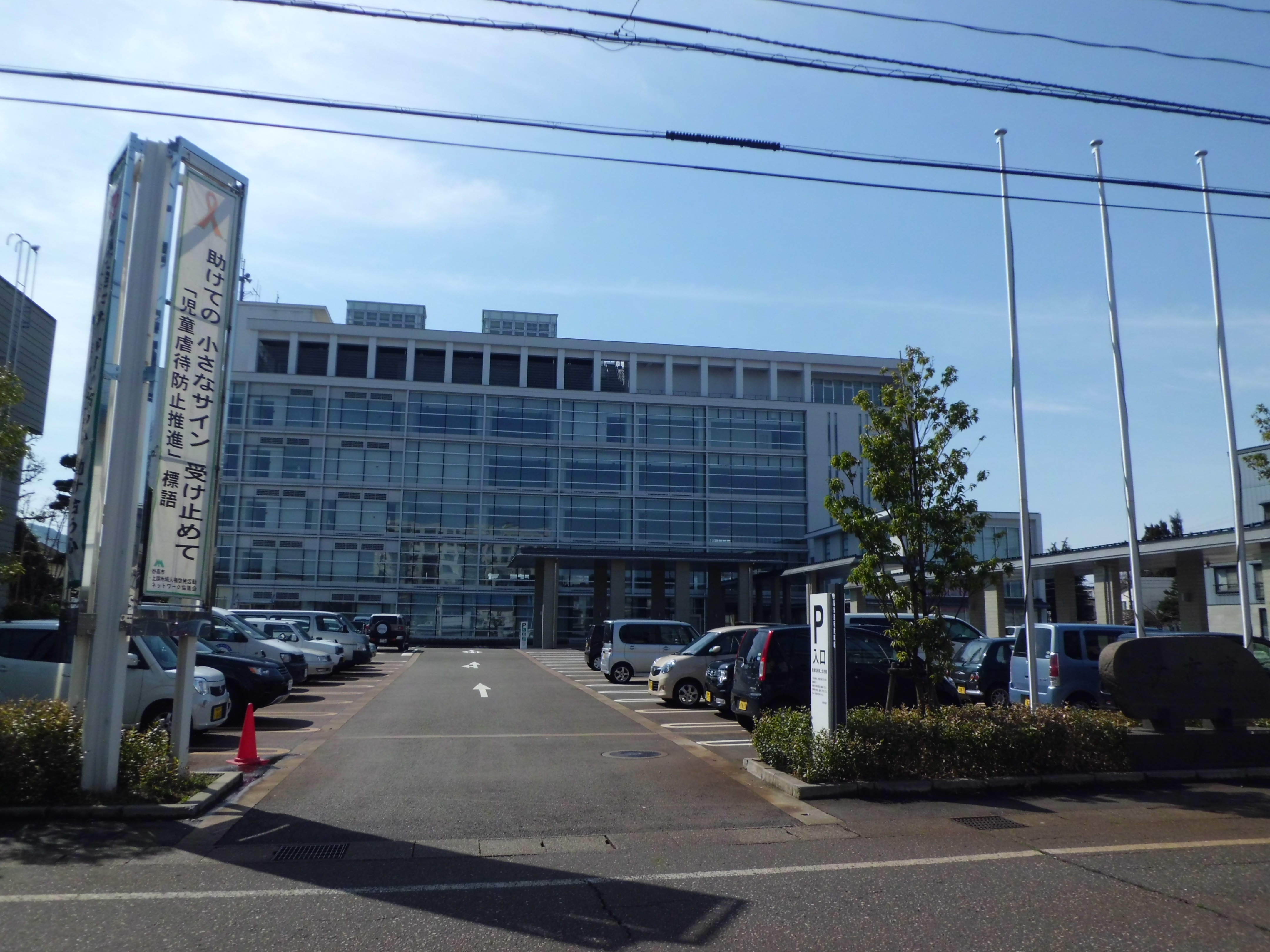 City Office of Myoko, Niigata prefecture, Japan.